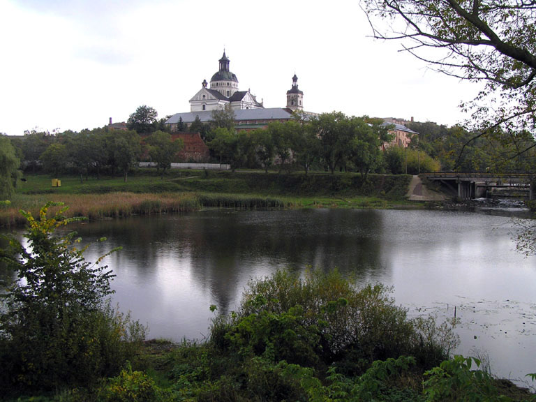 17th century fortified Carmelite convent in Berdychiv, Zhytomyr Oblast, Ukraine (originally uploaded in English Wikipedia by User:Ghirlandajo as File:Berdichev.jpg)